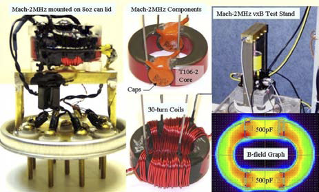 Photograph of the 2006 Woodward effect test article.